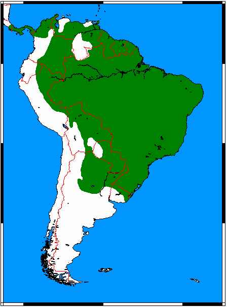 Crab-eating Raccoon (Procyon cancrivorus) range map, made by me with help of Map depending on the range map at IUCN red list.